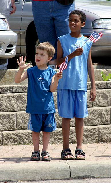 Children at a parade in North College Hill, Hamilton County, Ohio, United States of America, in May 2004.